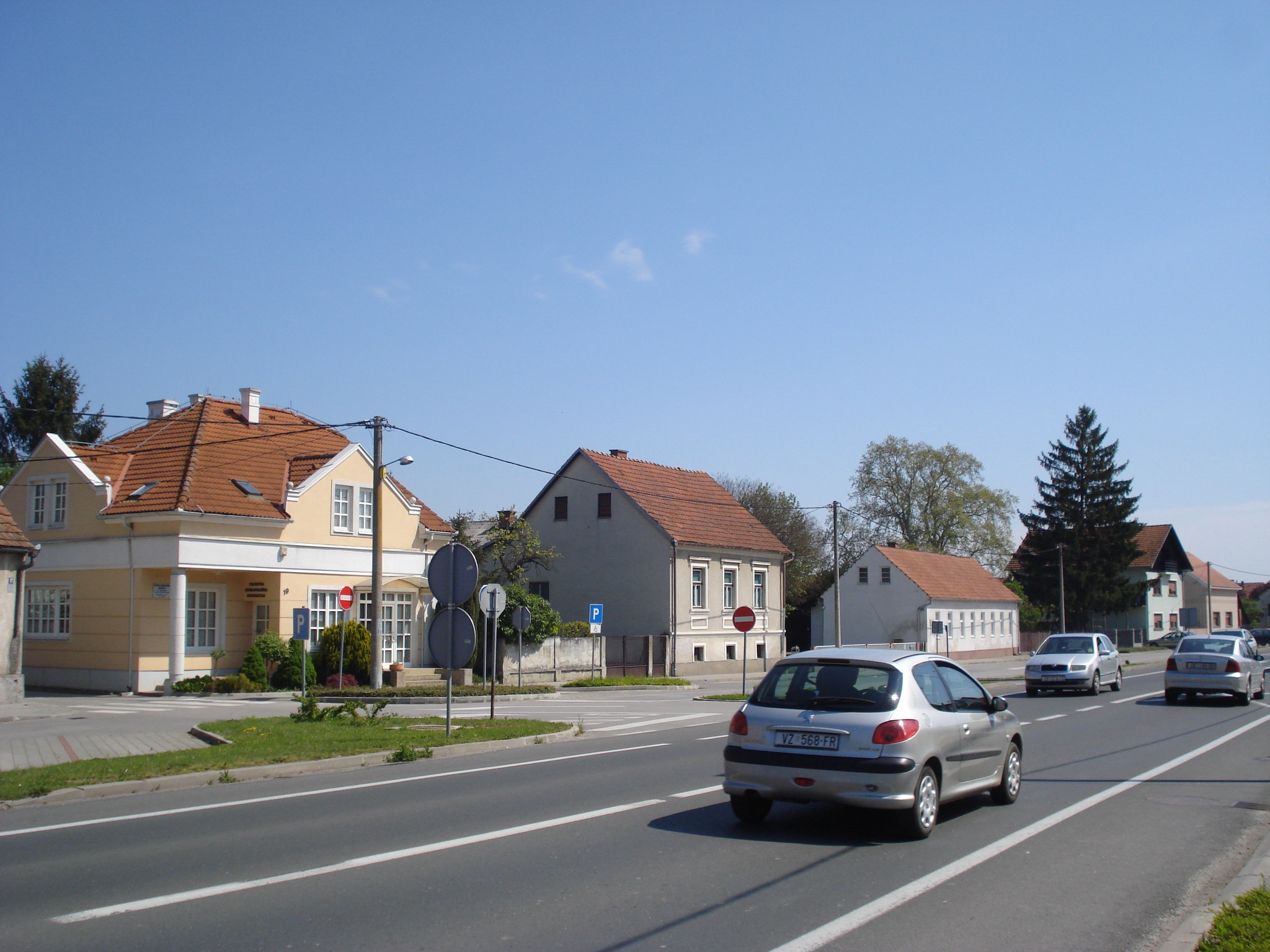 Nedelišće, Medjimurje County, Croatia - village centre